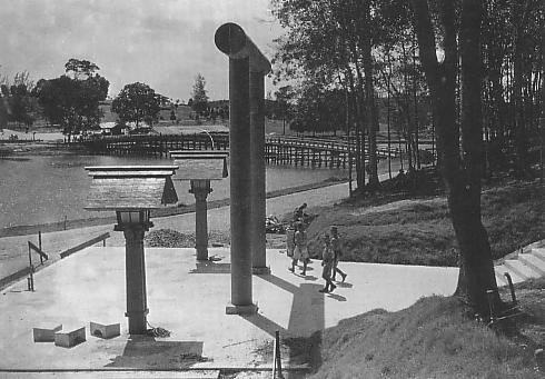 A Shinto shrine in Shonan (Syonan), as Singapore was known during the Japanese Occupation (1939–1945).